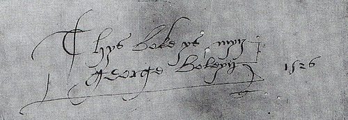 Copy of ‘Les Lamentations de Matheolus’ and ‘Le Livre de Leesce’ by Jean Lefevre, owned by George Boleyn. He wrote inside the book "Thys boke ys myne George Boleyn 1526"